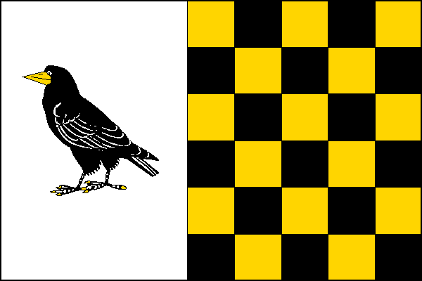 Municipal flag of Ráby village, Pardubice District, Czech Republic.